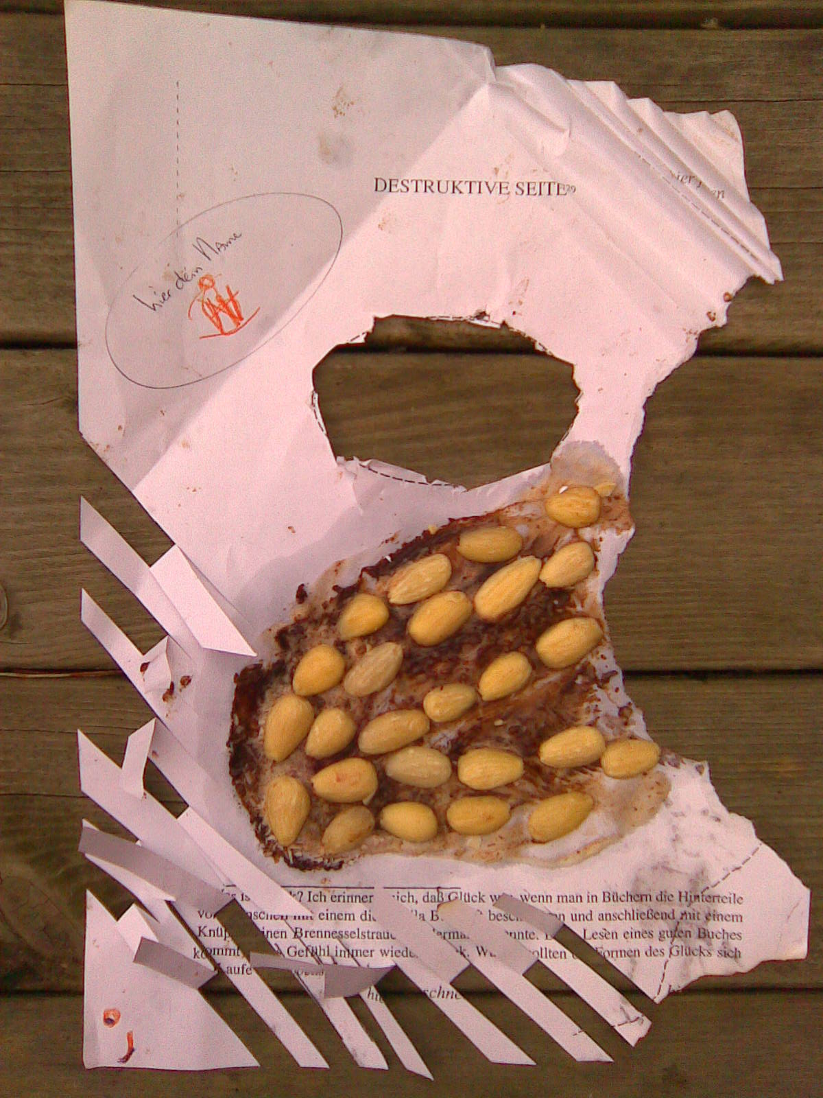 Experimental poem by the Estonian poet Valdur Mikita, translated into German and 'executed'.